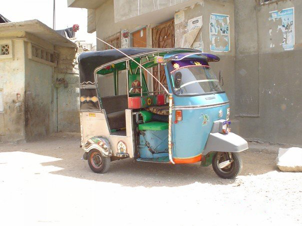 Omeir Yusuf